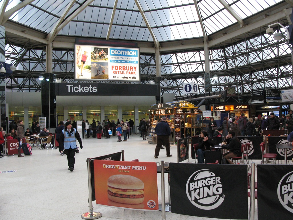 The ticket office at Reading railway station. The entrance to the platforms is to the right beside the Burger King.